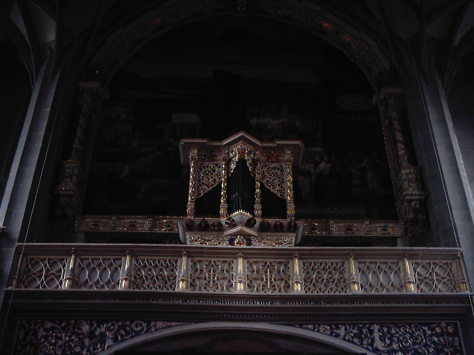 Small Organ of Market Church in Halle